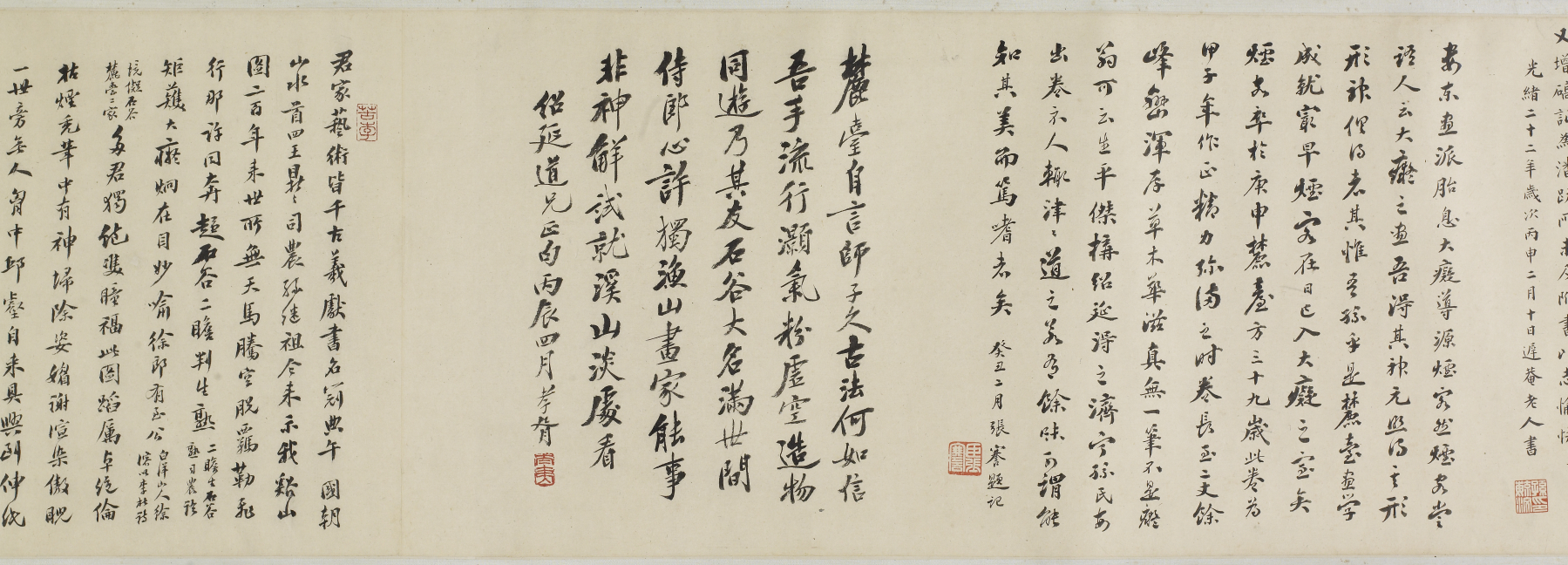 When he painted this long handscroll in 1684, Wang Yuanqi [Wang Yüan-ch'i], the greatest orthodox master of the Qing [Ch'ing] dynasty, had not yet developed the style for which he is best remembered. Grounded in the lessons of his grandfather, the artist Wang Shimin [Wang Shih-min], he aimed in his own way to make a work both as weighty and as free as that which was regarded as the greatest of Chinese handscrolls: Huang Gongwang's [Huang Kung-wang's] Dwelling in the Fuchun [Fu-ch'un] Mountains of 1350.